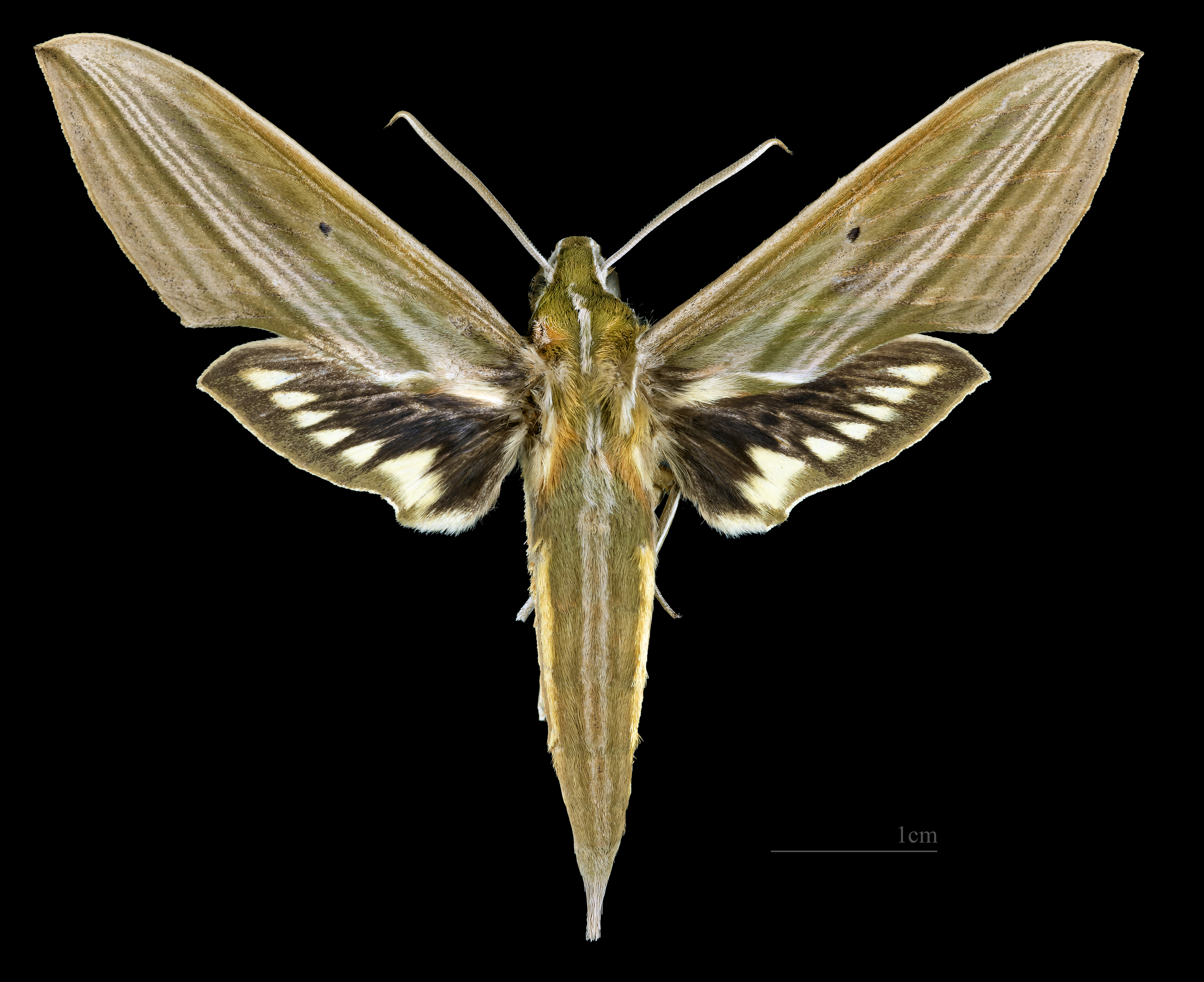 Xylophanes indistincta - Dorsal side Collection of the Mathematician Laurent Schwartz